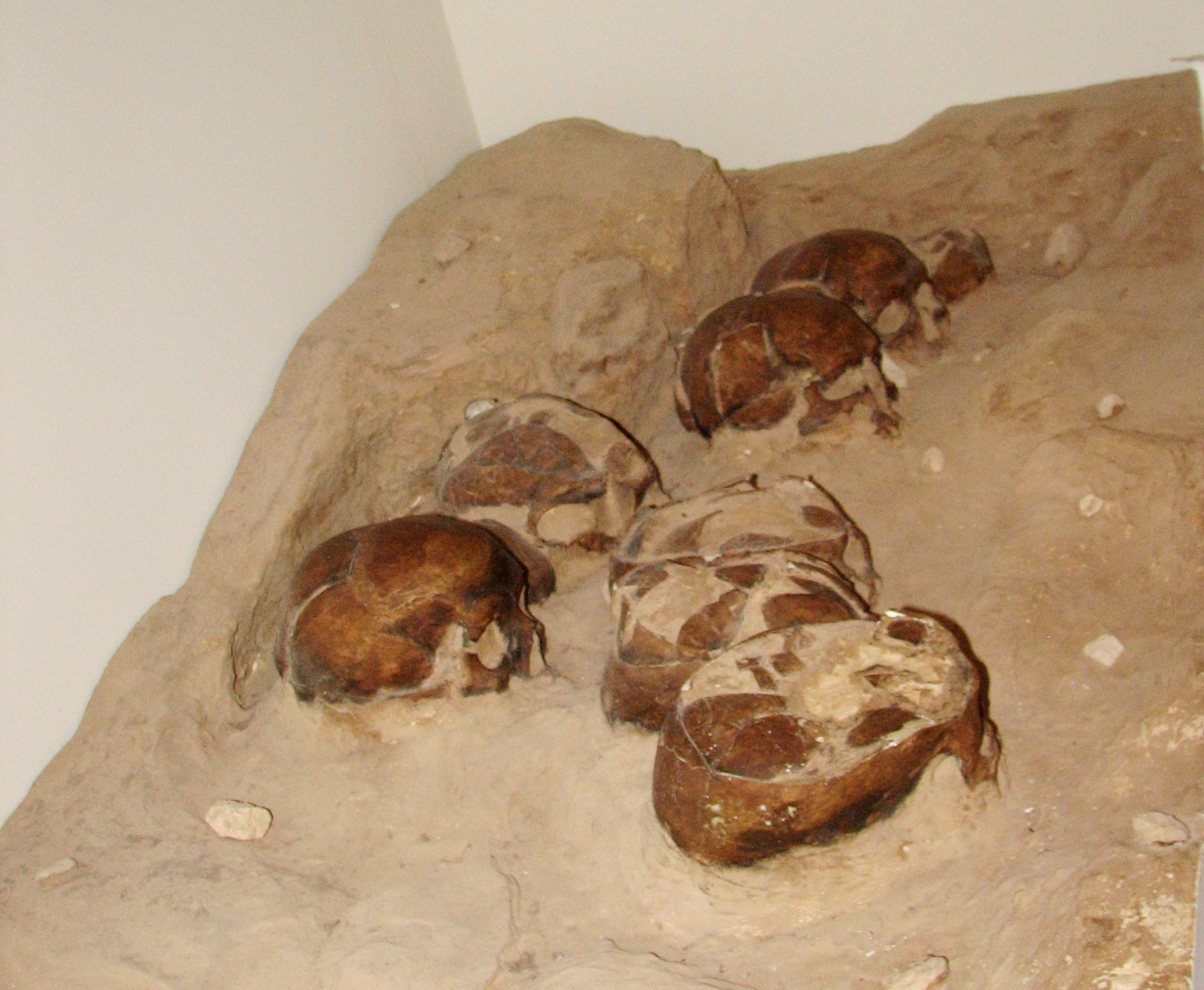 Moshe Stekelis Museum of Prehistory exhibition in Haifa Israel The exhibition is based on the excavations and researches of the Haifa University and Antiquities Authority. Nine human skulls as discovered under floor of a house in Jericho, Pre-Pottery Neolithic A period – Replica